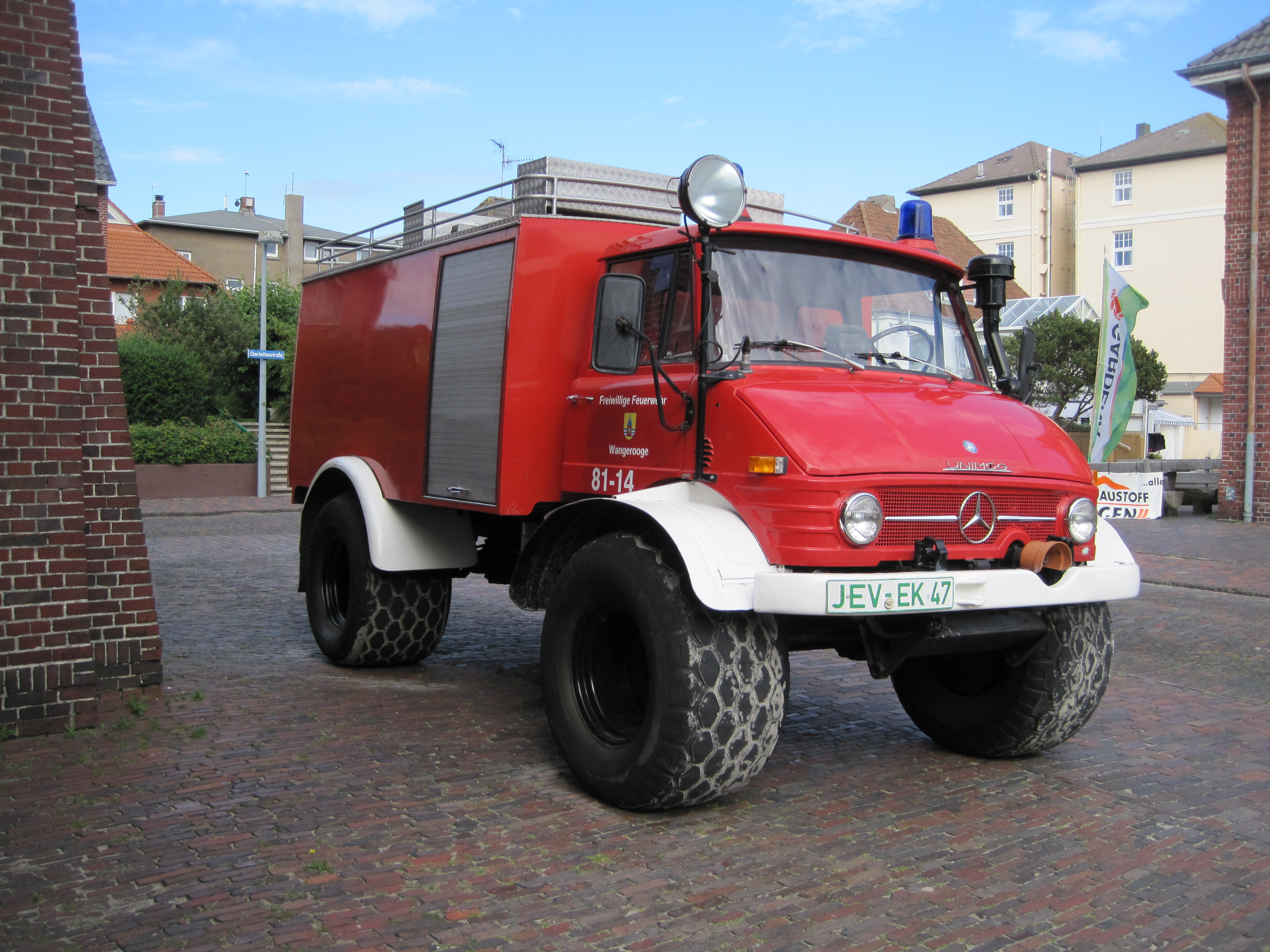 Fire engine TLF 8, Wangerooge, Germany. check usage